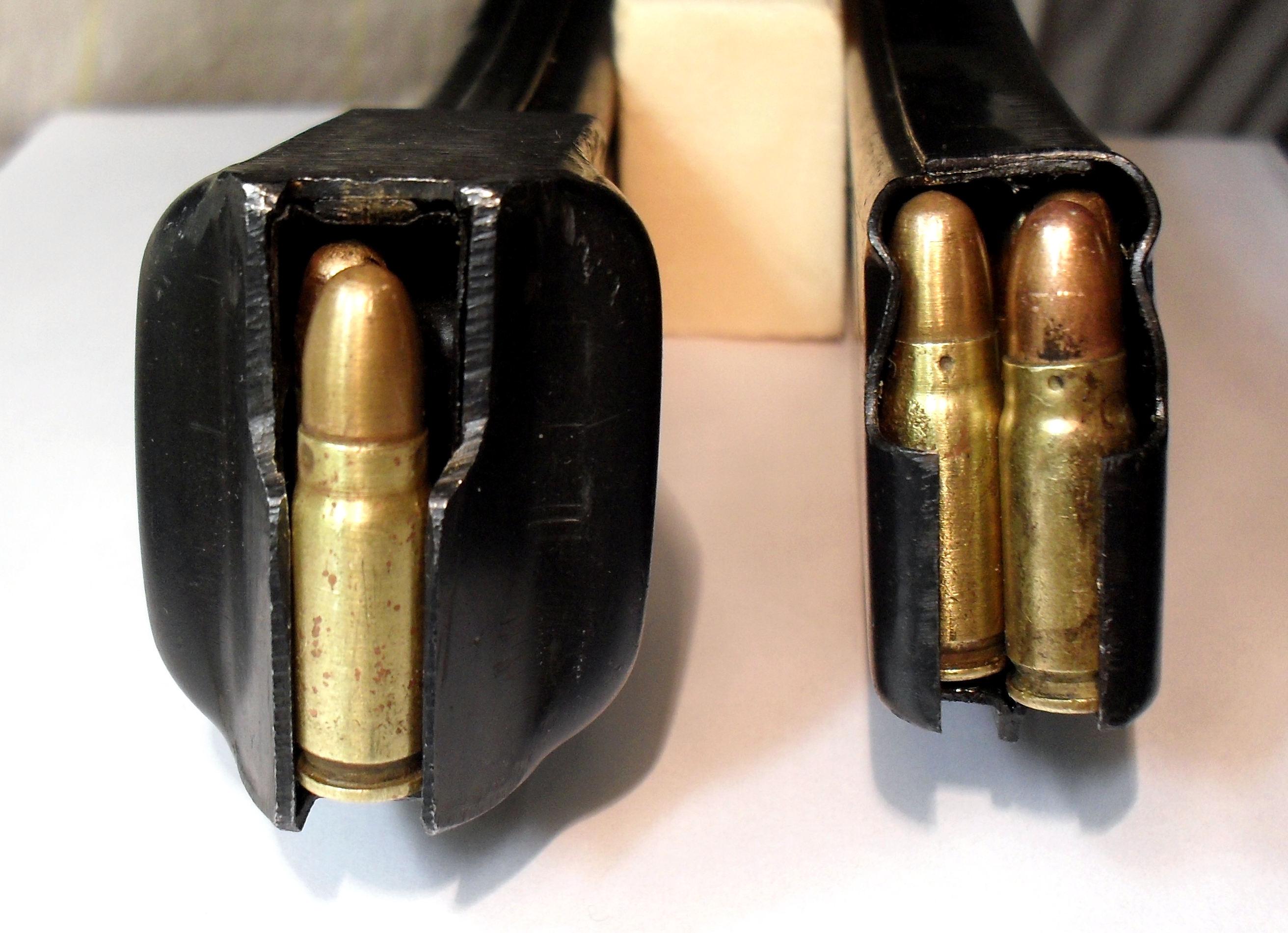 Comparison of magazines of PPSh and PPS submachine guns.